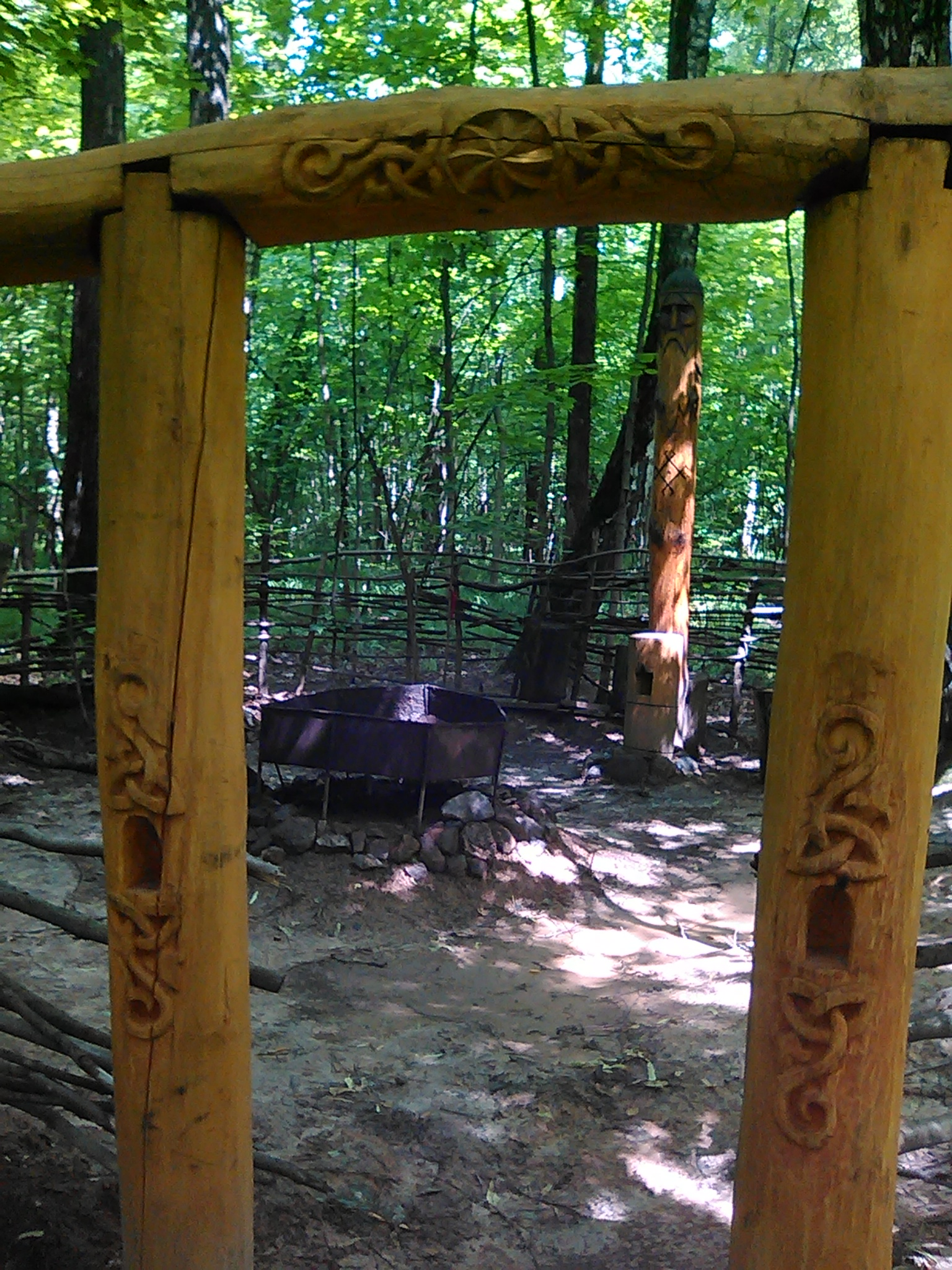 Svarog's shrine in Bitsa Park, Moscow.